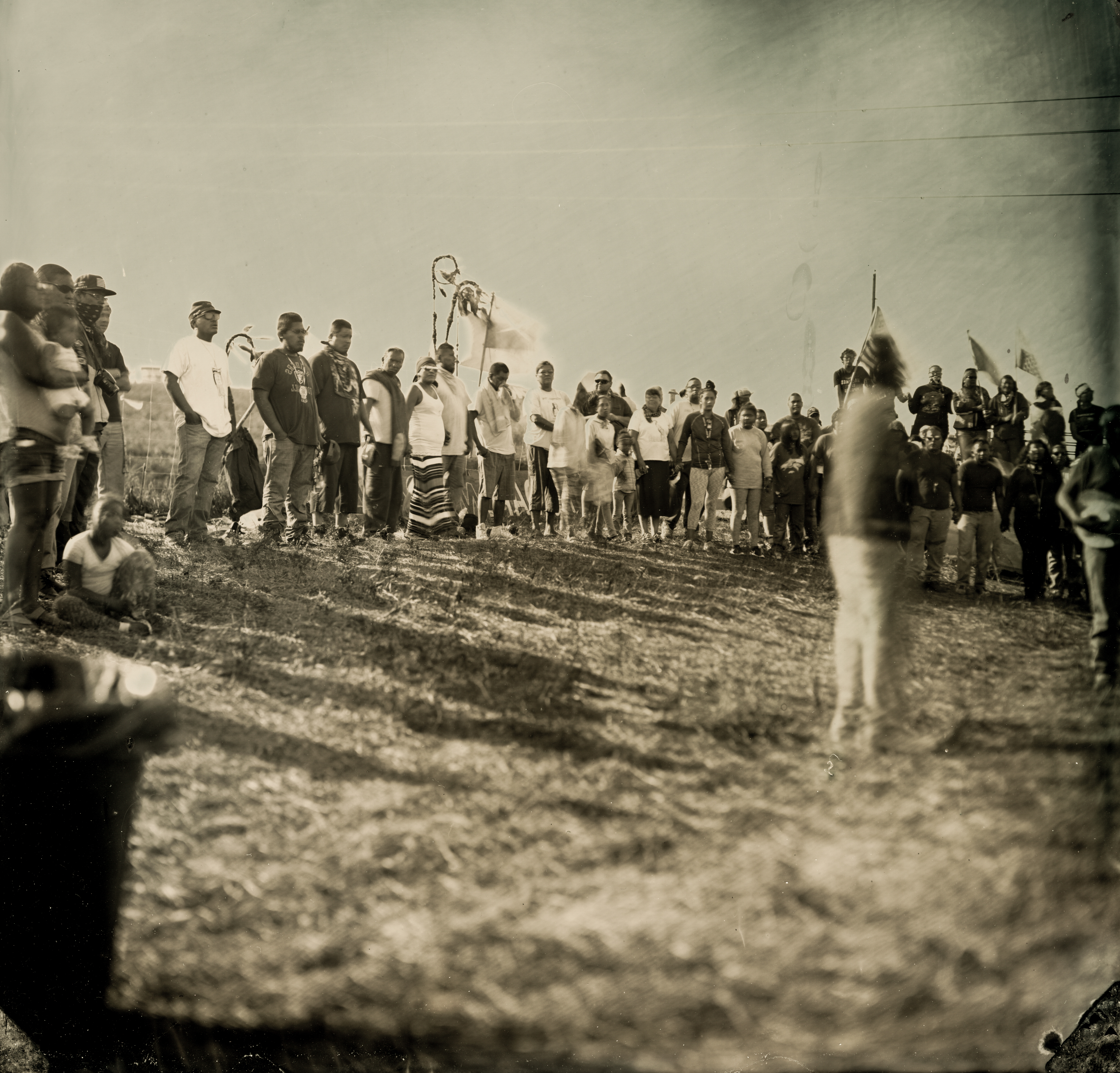 Dakota Access Pipeline Native American protest site, on Highway 1806 near Cannonball, North Dakota, August 15th, 2016. NODAPL!